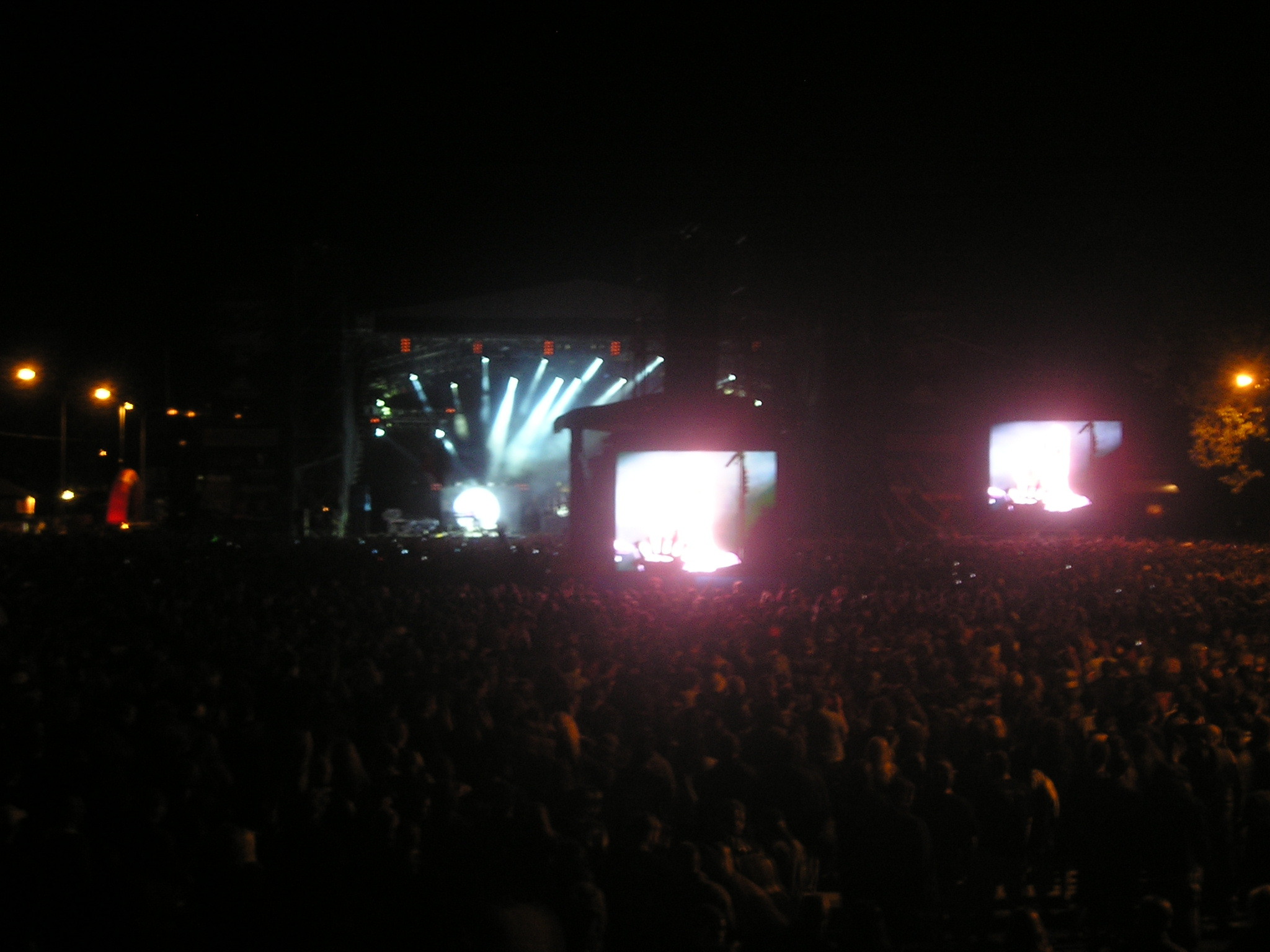 Photo from Czech festival Masters of Rock (2009)